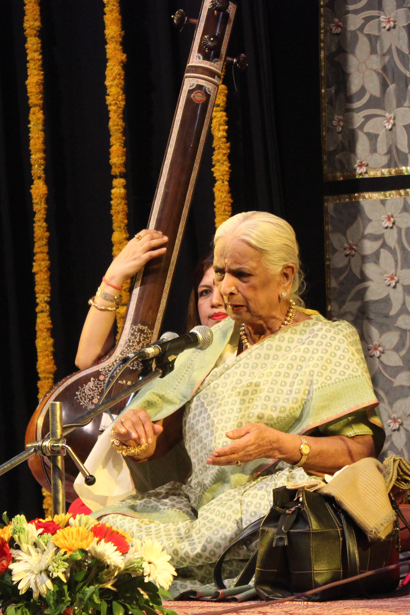 Girija Devi Performing at Bharat_Bhavan Bhopal in July 2015 in a program - Uttar Pradesh Mahotsav